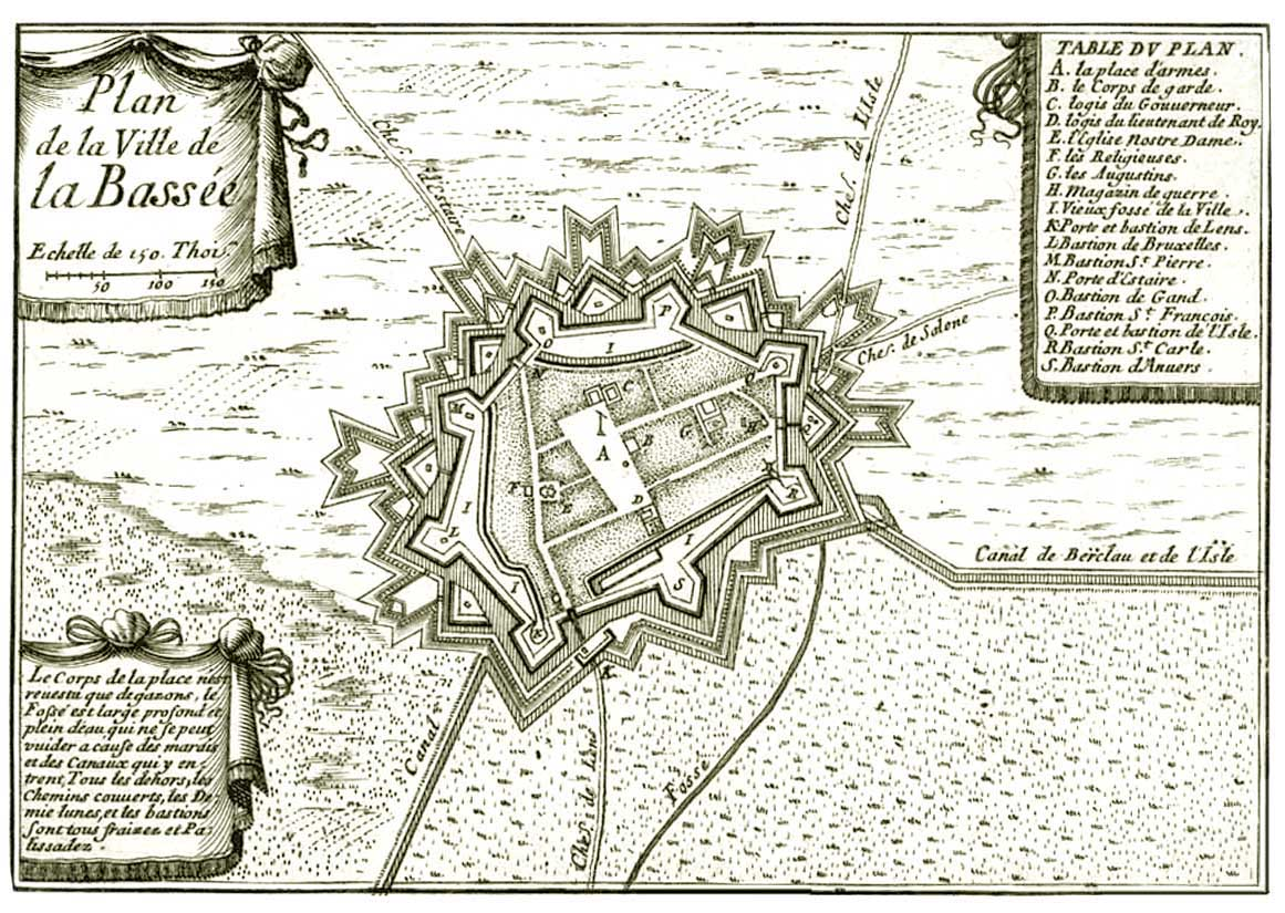 Old map of la bassée, north of France, with wetlands